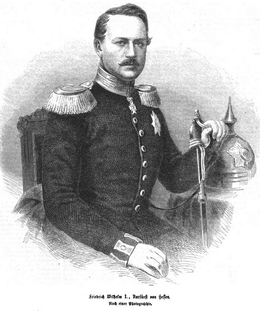 Friedrich Wilhelm I. (1802–1875), elector, landgrave of Hesse-Kassel, grand duke of Fulda, prince of Hanau, prince of Hersfeld, prince of Fritzlar, prince of Isenburg, count of Katzenelnbogen, count of Nidda, count of Diez, count of Ziegenhain, count of Schaumburg, etc., etc. (1862)